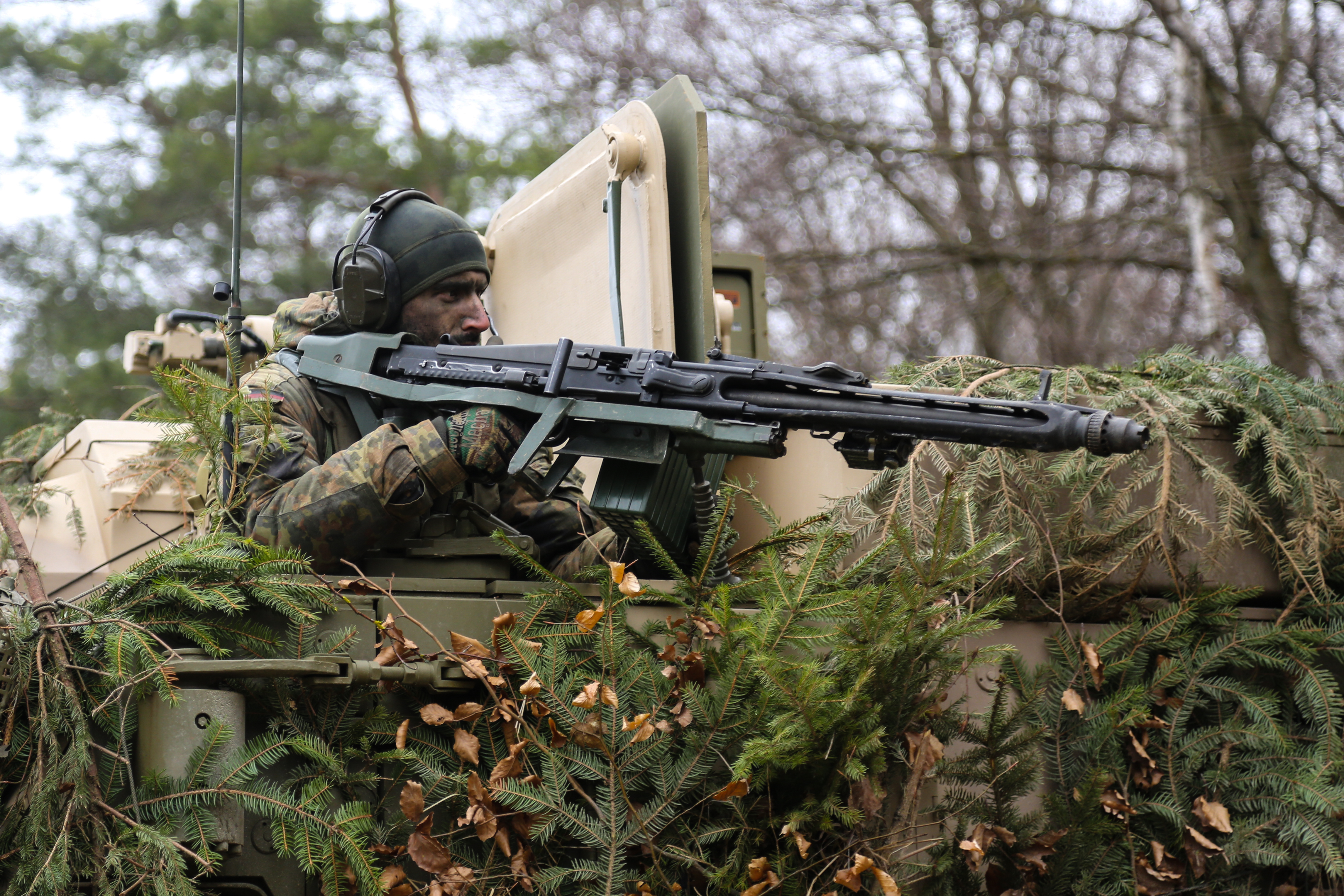 A German soldier of 8th Reconnaissance Battalion, 12th Armored Brigade provides security while conducting a reconnaissance operation during Exercise Allied Spirit VI at 7th Army Training Command’s Hohenfels Training Area, Germany, March 24, 2017. Exercise Allied Spirit VI includes about 2,770 participants from 12 NATO and Partner for Peace nations, and exercises tactical interoperability and tests secure communications within Alliance members and partner nations.